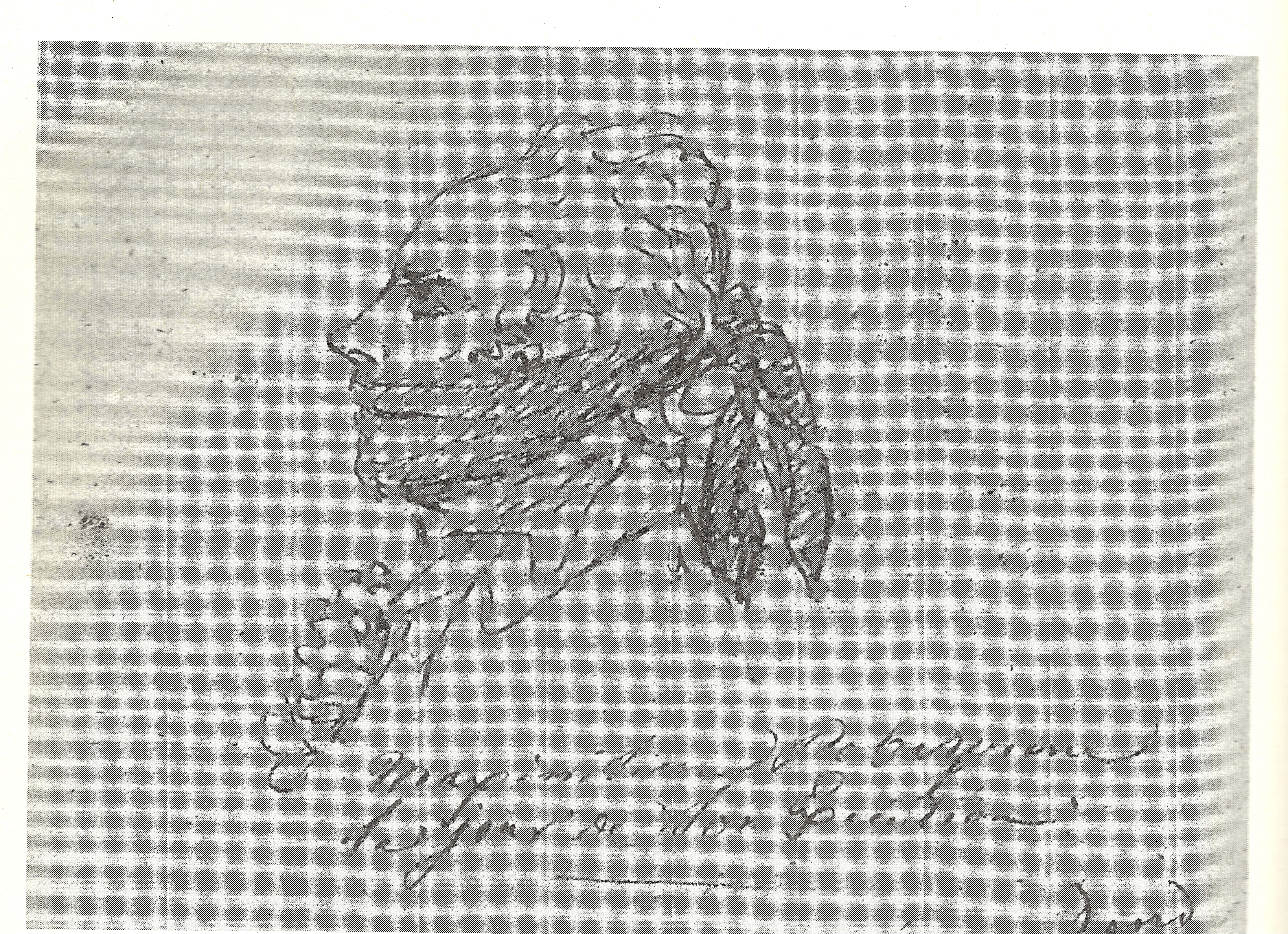 Robespierre sketched on the day of his execution